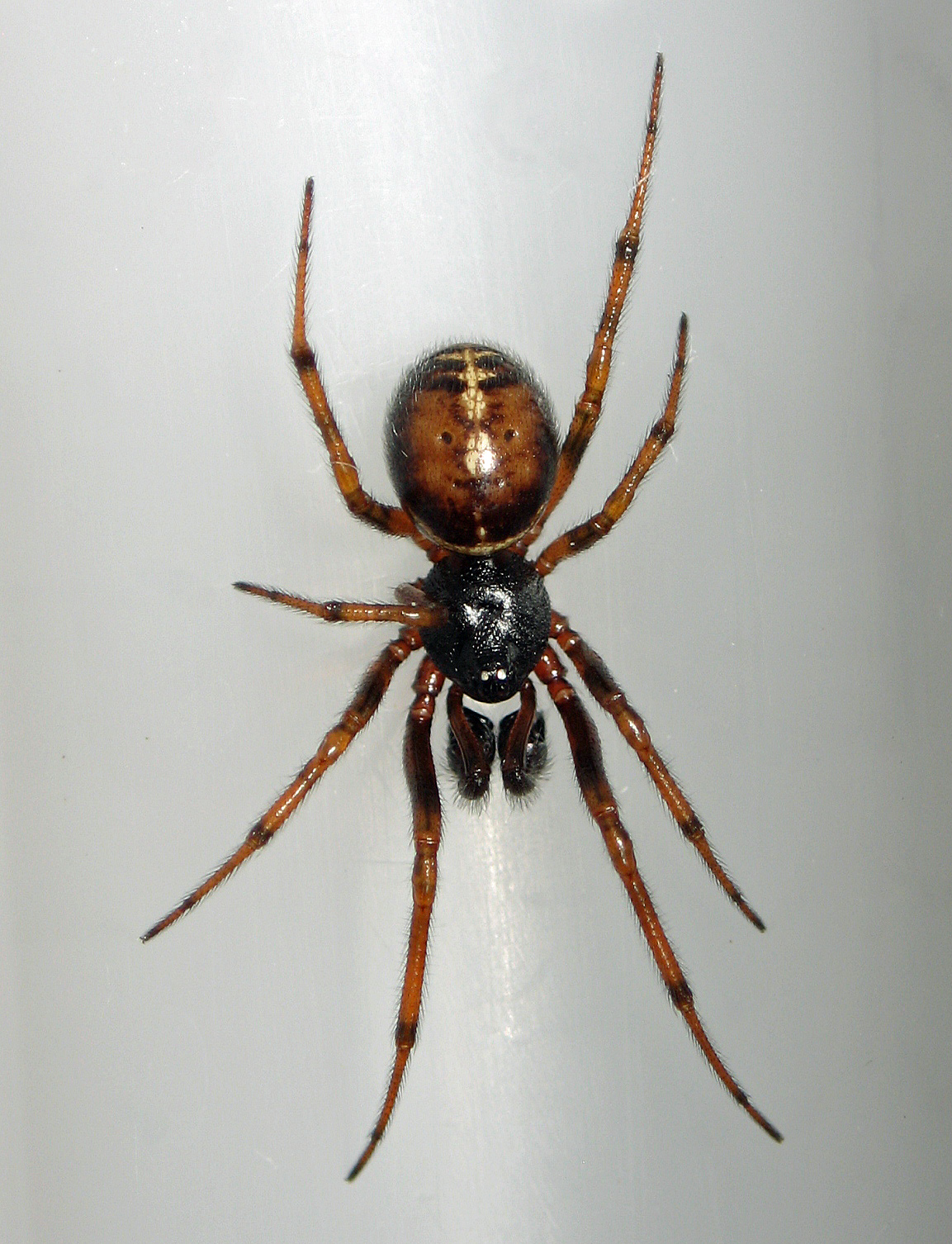 Image shows dorsal aspect of an adult male Steatoda bipunctata. Native to Europe, this species is also now found in North America. This one was collected in King County, Washington, USA, on the side of a garage at night and then photographed in captivity.